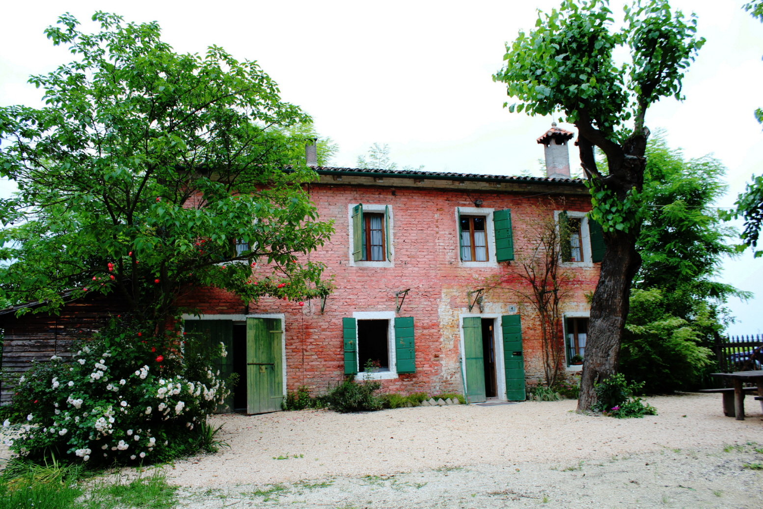 Last home of Goffredo Parise, called "House of the fairies". The house is located in Gonfo of the Piave River, Salgareda (Italy).